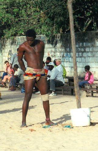 Showing his body and muscles